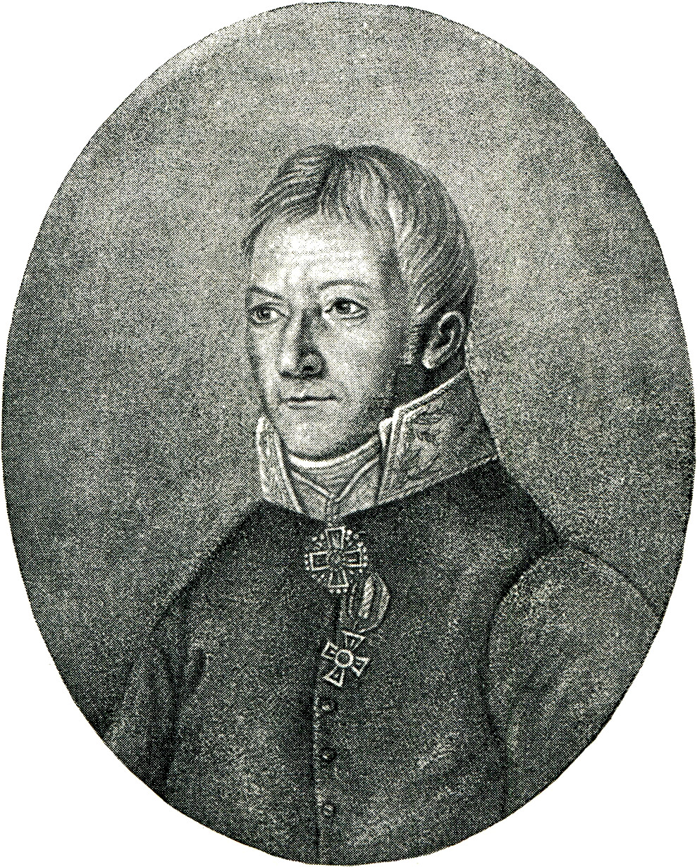 Academician of Russian AS V. Severgin